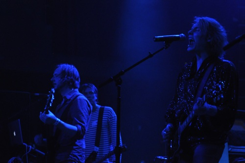 Amusement Parks on Fire - Live in Concert (photo by Scott Dudelson.)